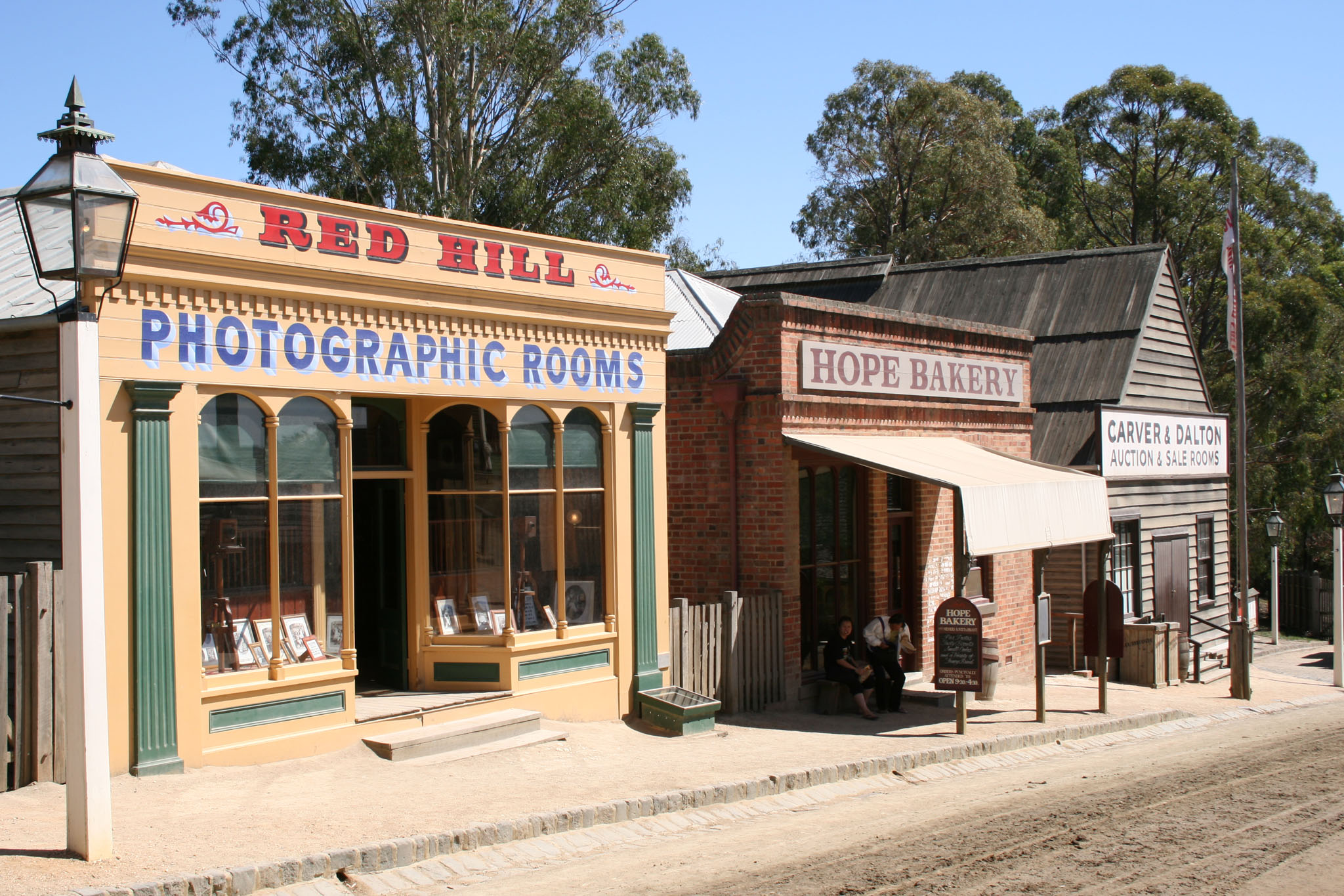 Sovereign Hill, Ballarat, Australia